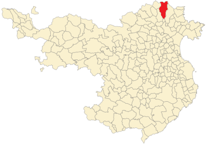 Espolla